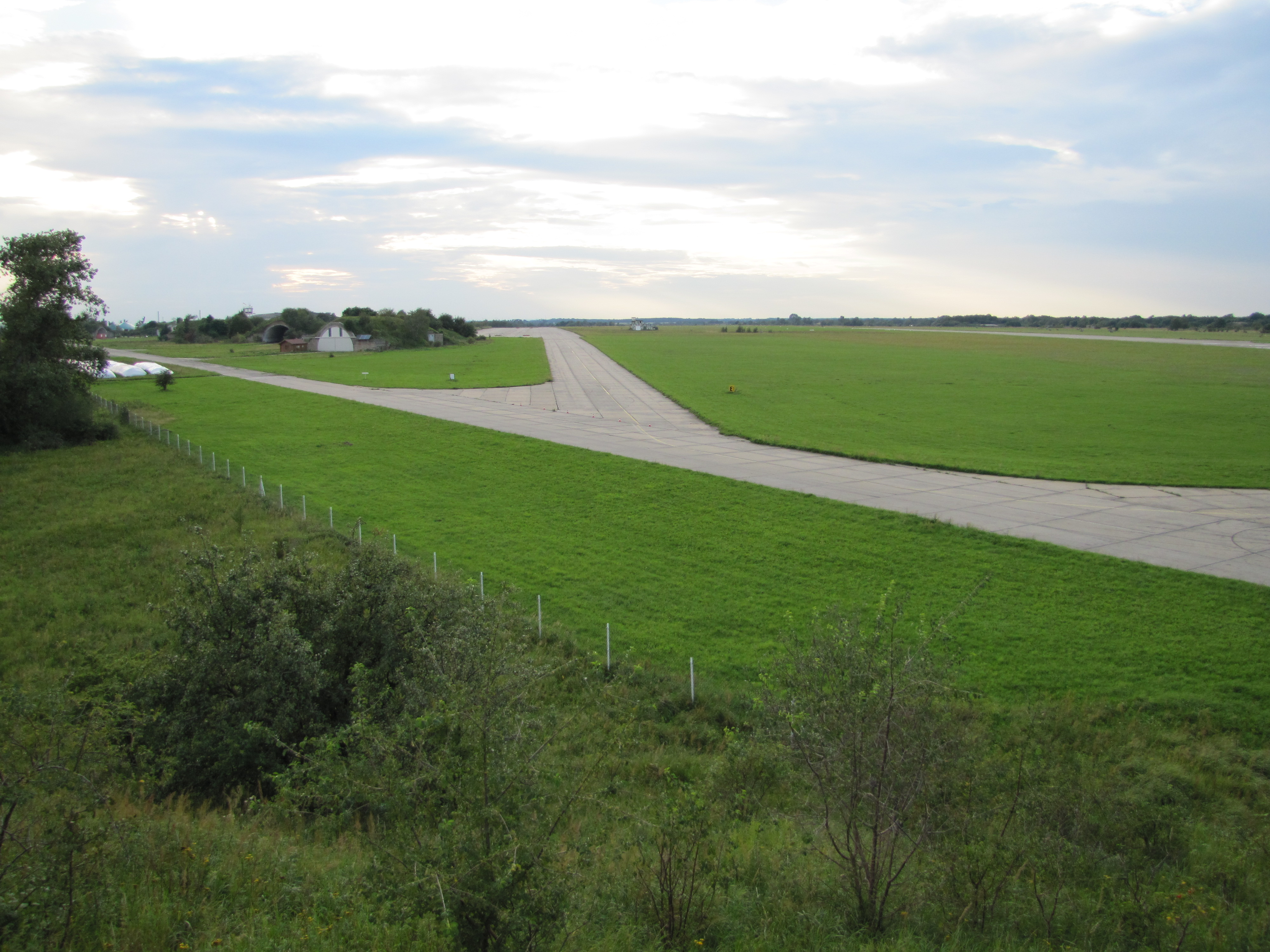 Airside area of Airfield Großenhain - view from southeast